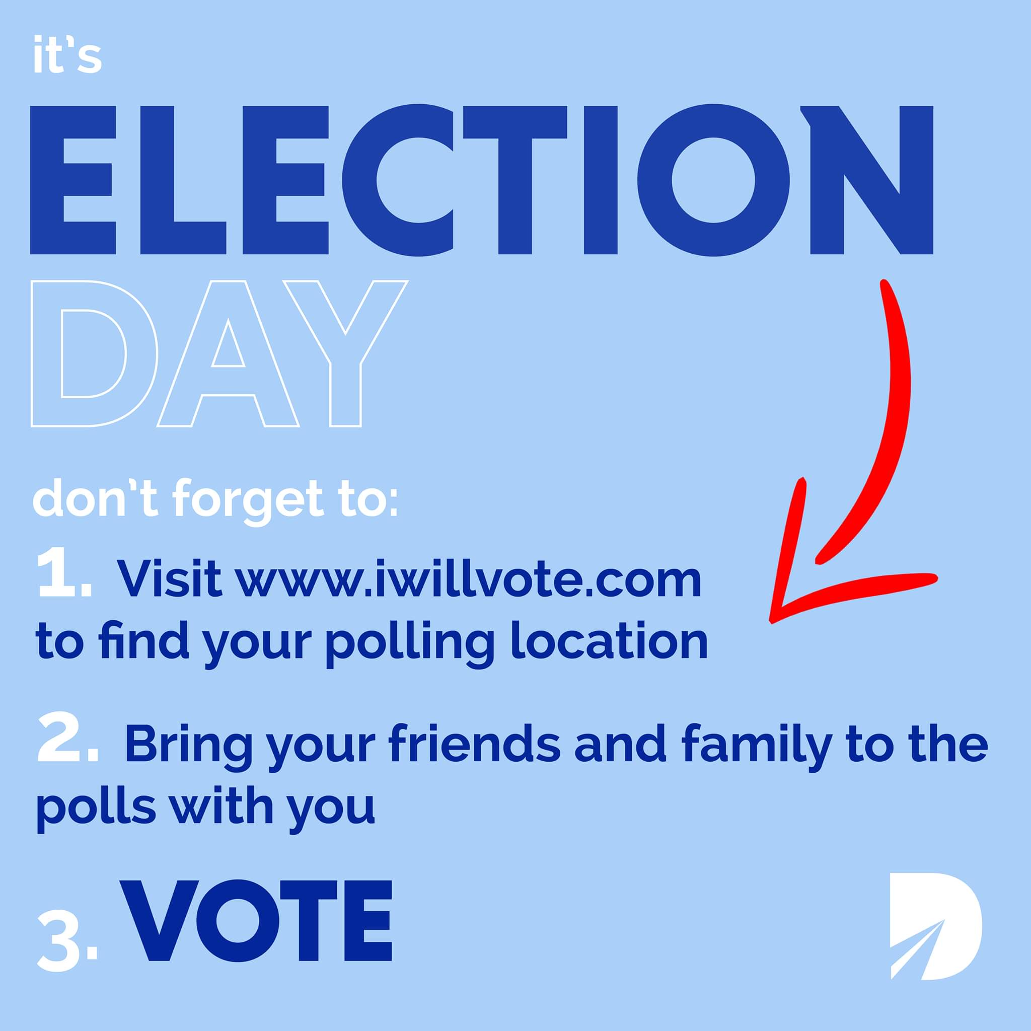 John Delaney